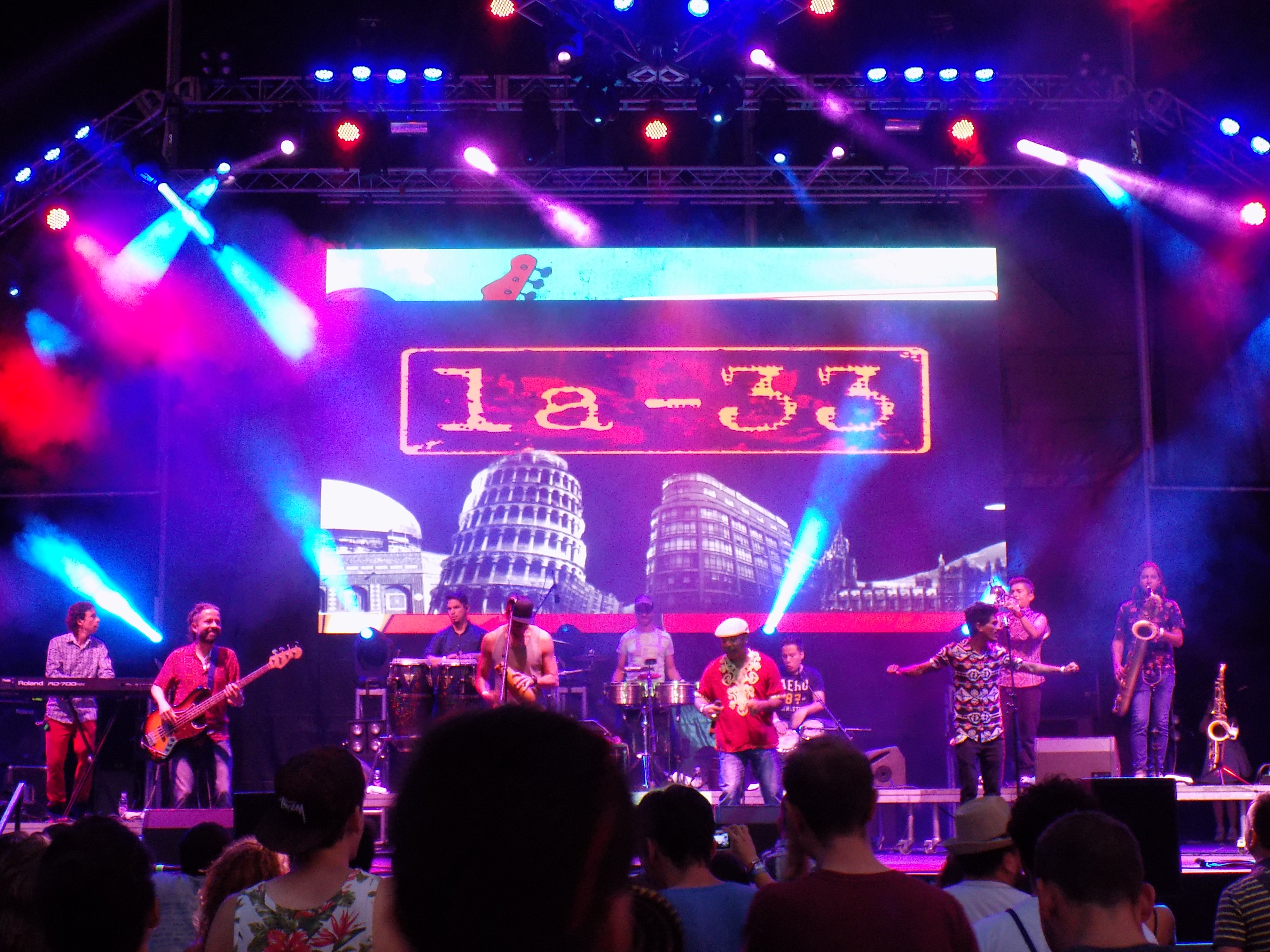 Taken on Saturday, the 15th of August, 2016. La 33 (band) from Colombia. World Music Stage, Sziget Festival, Budapest